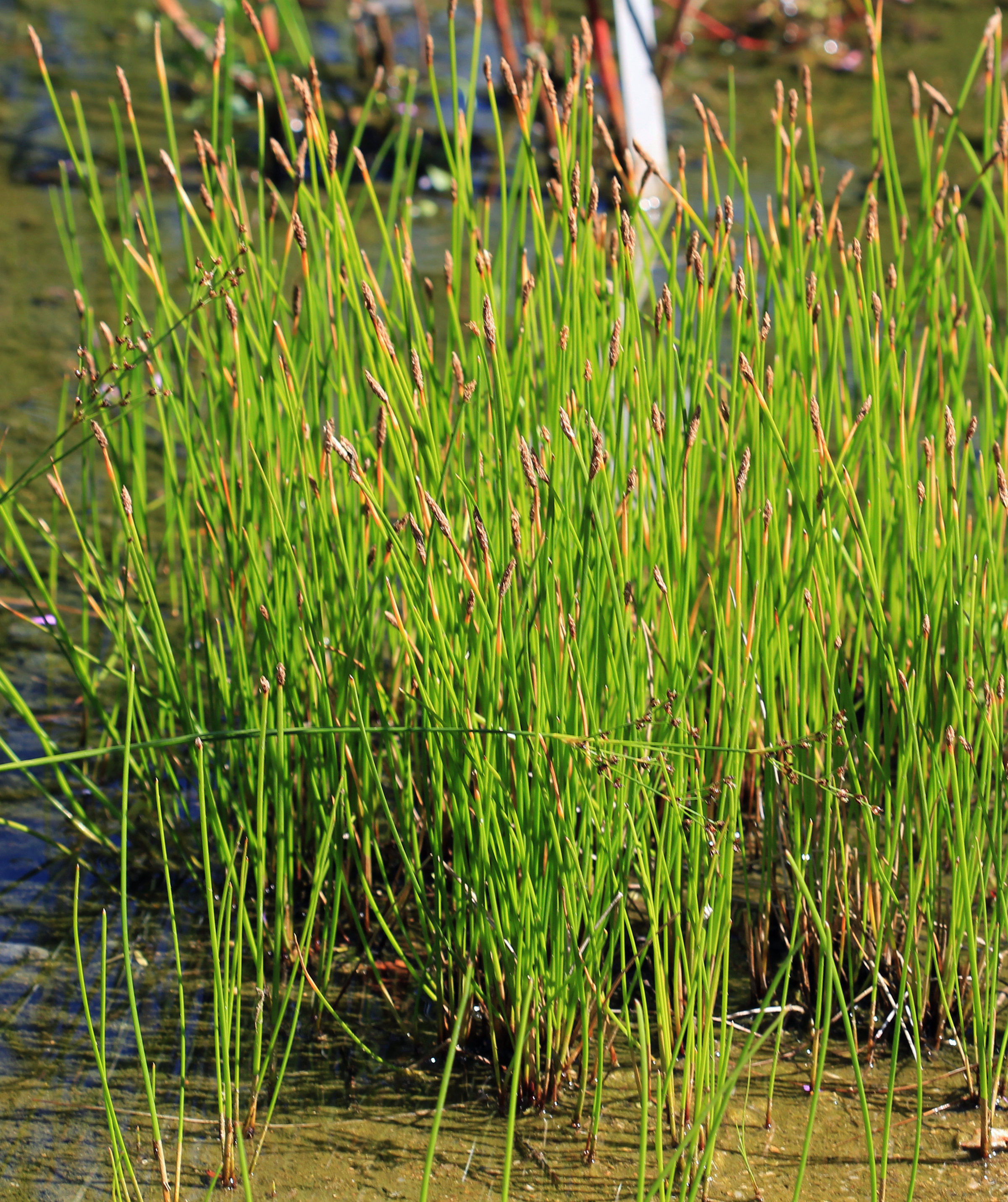 Water plant Eleocharis palustris from the Botanical Gardens of Charles University, Prague, Czech Republic